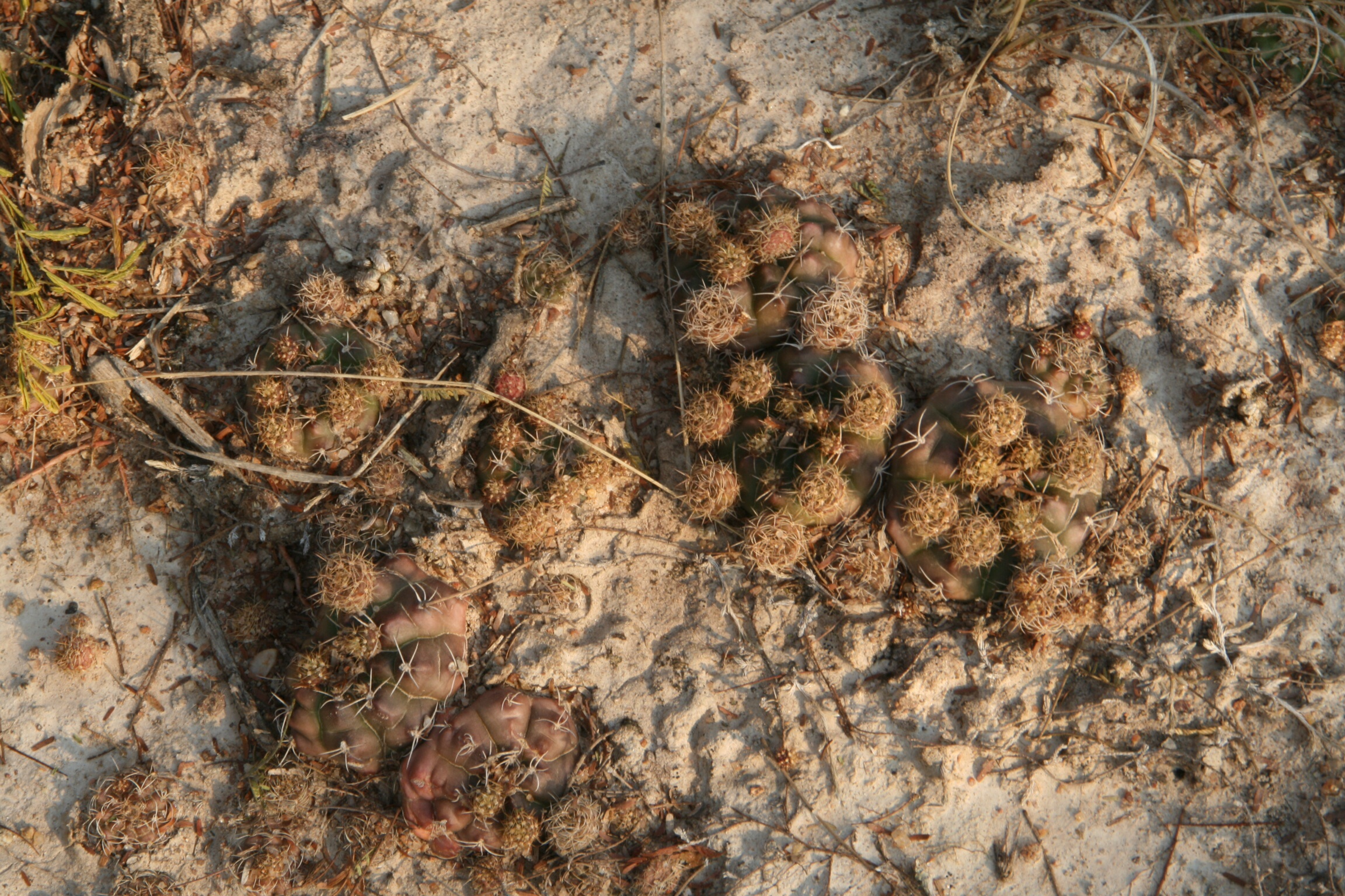 Type locality, S Mato Grosso do Sul, Brasil